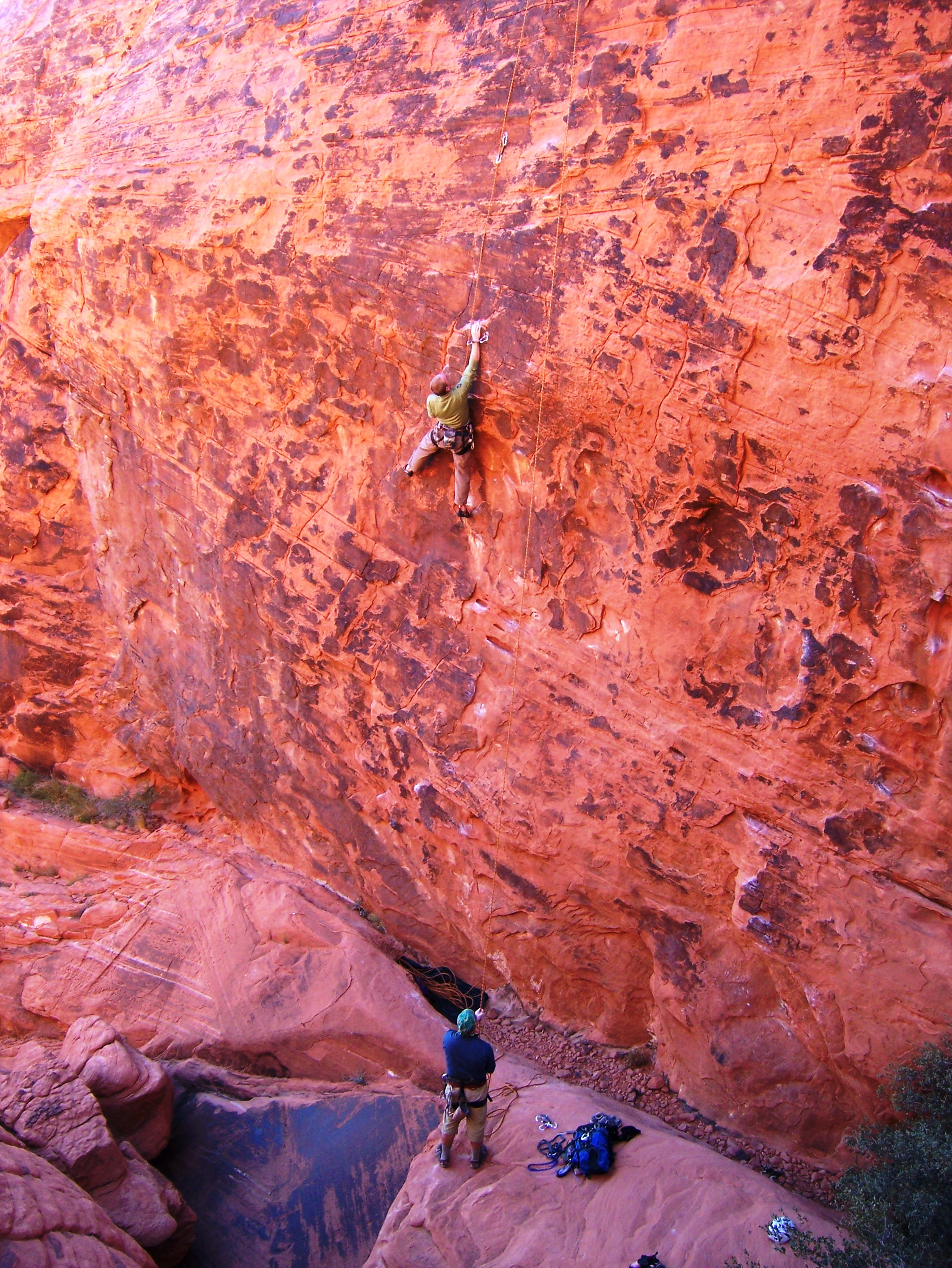 Climbers in Red Rocks of Nevada, USA. The climb is "Purple Haze" at the Stone Wall near Second pullout of the Scenic Loop.